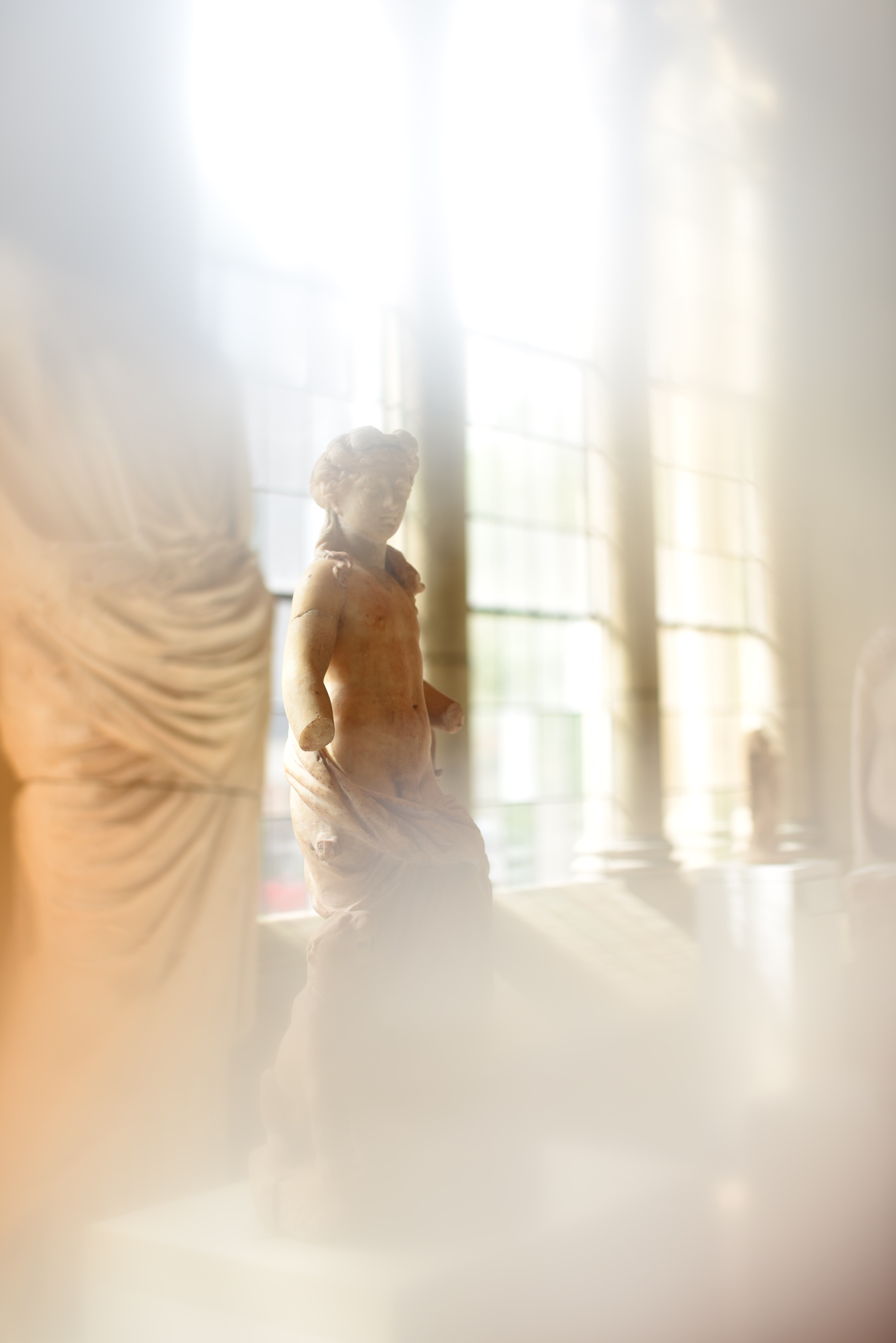 Ancient Art Collection at Yale.